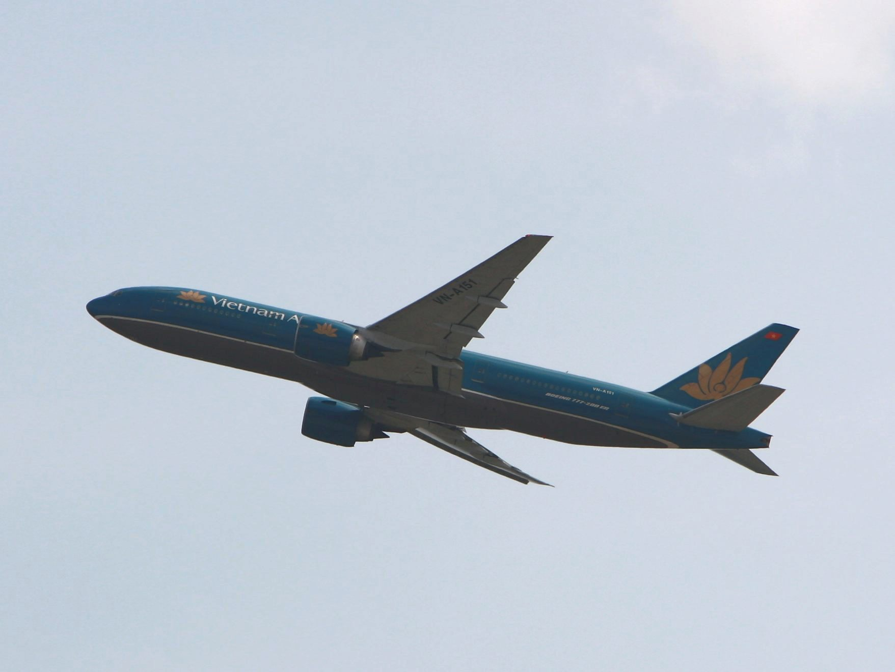 A Boeing 777-200 of Vietnam Airlines